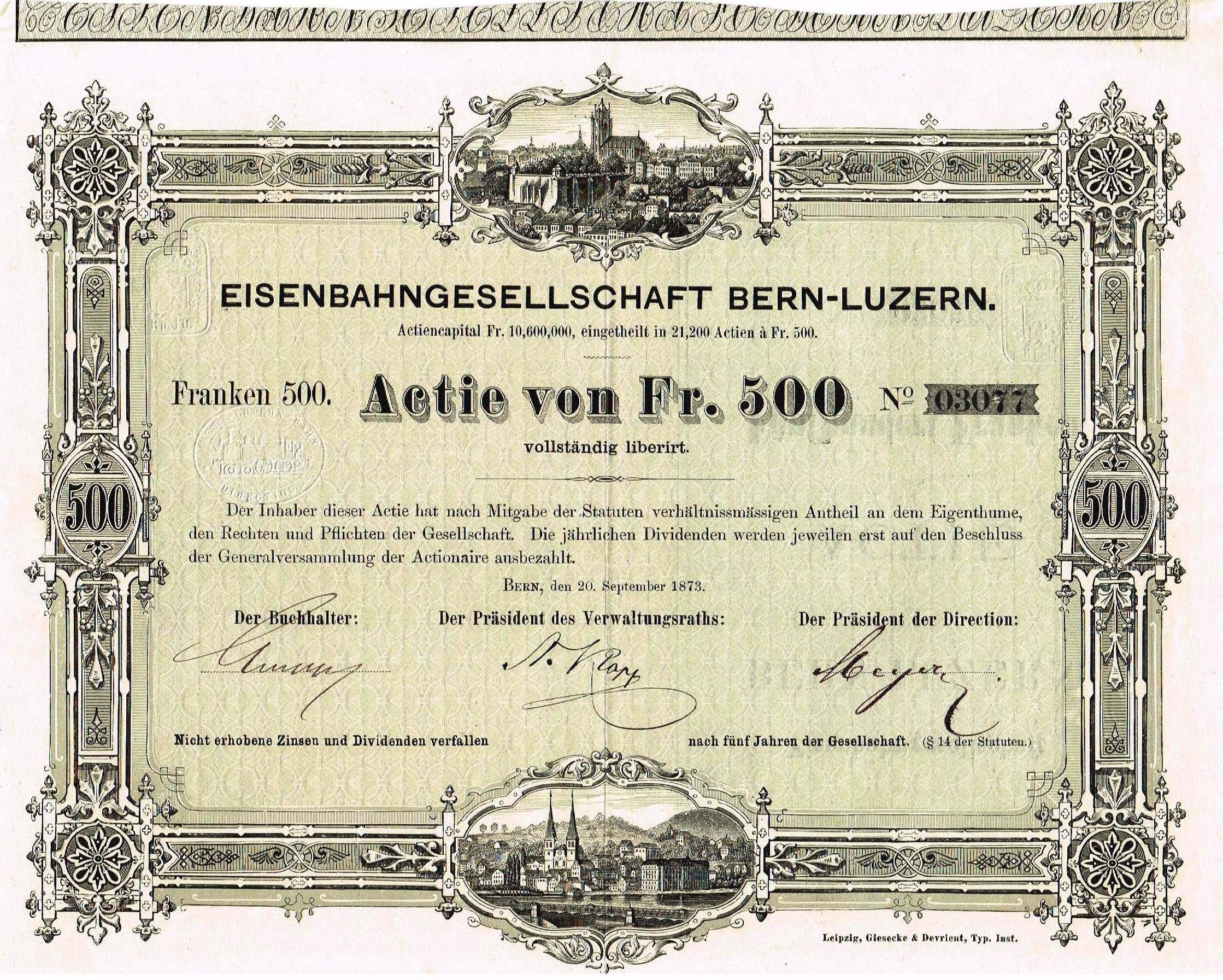 Share of the Eisenbahngesellschaft Bern-Luzern (Bern-Luzern-Bahn), issued 20. September 1873